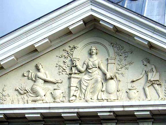 Santa Cruz Court House pediment